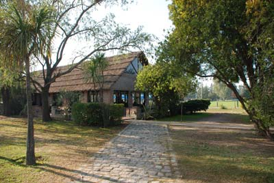 quincho